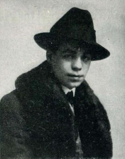 American songwriter, pianist, and composer Harry Carroll (1892 – 1962), on page 8 of the August 1919 The Tatler.